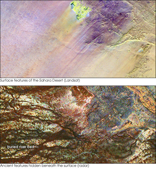 Two images of the Safsaf Oasis in The Sahara. The top image (taken by the Landat Thematic Mapper) is the surface. The bottom (taken by the Spaceborne Imaging Radar-C/X-band Synthetic Aperture Radar (SIR-C/X-SAR) on board the Space Shuttle Endeavour on April 16, 1994) is the rock layer underneath, revealing black channels cut by the meandering of an ancient river.